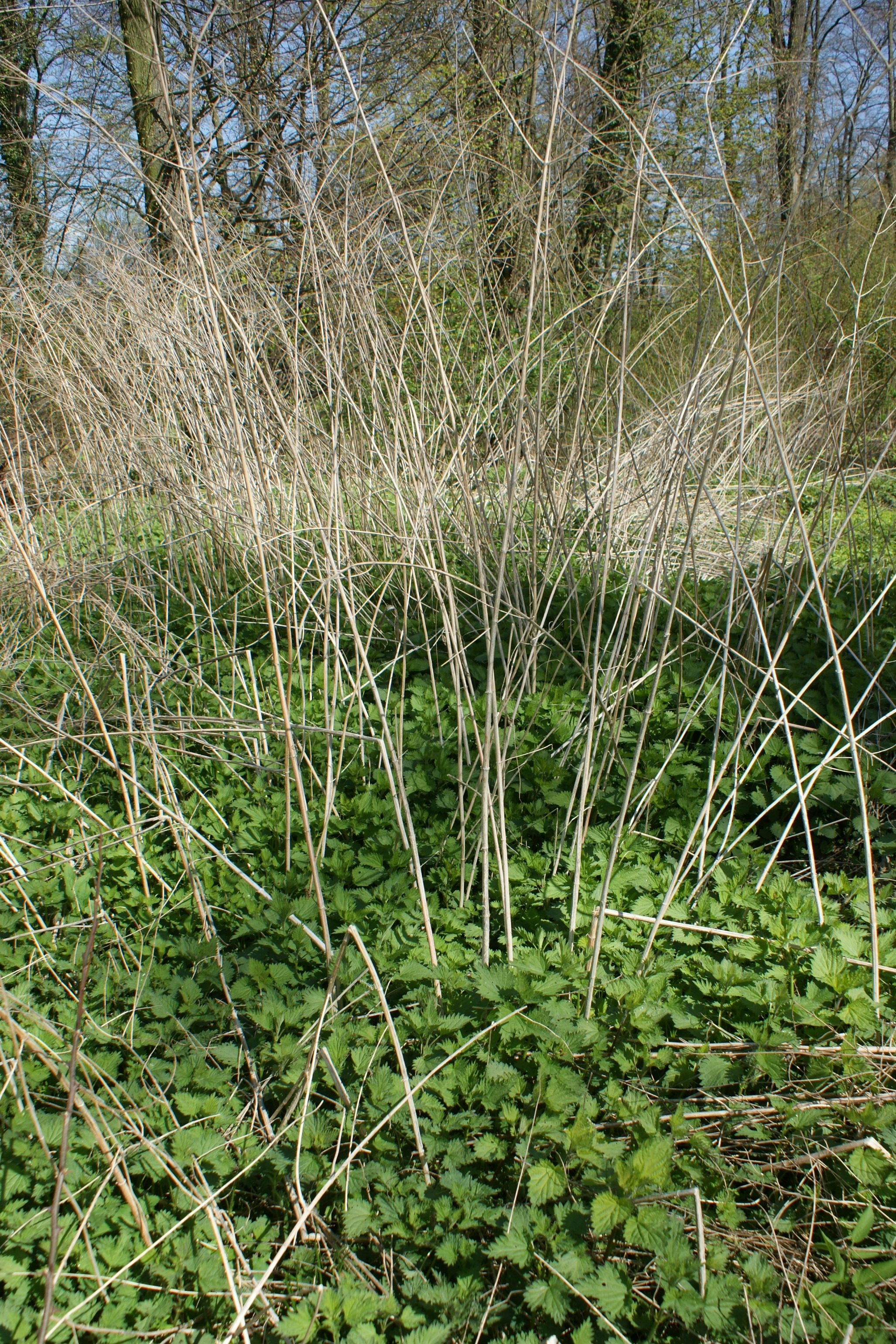 Urtica dioica, young shoots and dry stems from previous year. Szczecin (NW Poland)